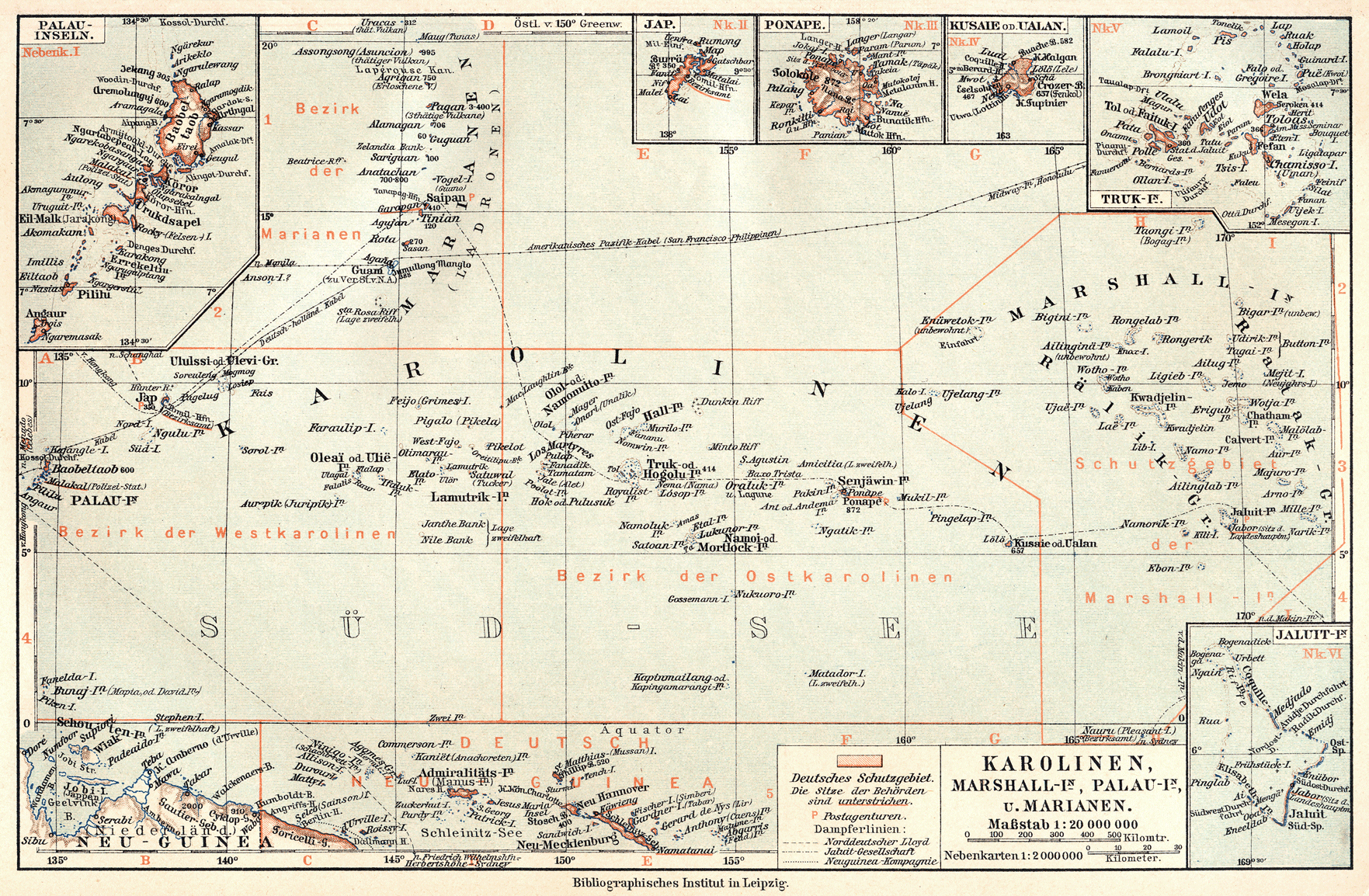 Caroline, Marshall, Mariana and Palau Islands (1905)